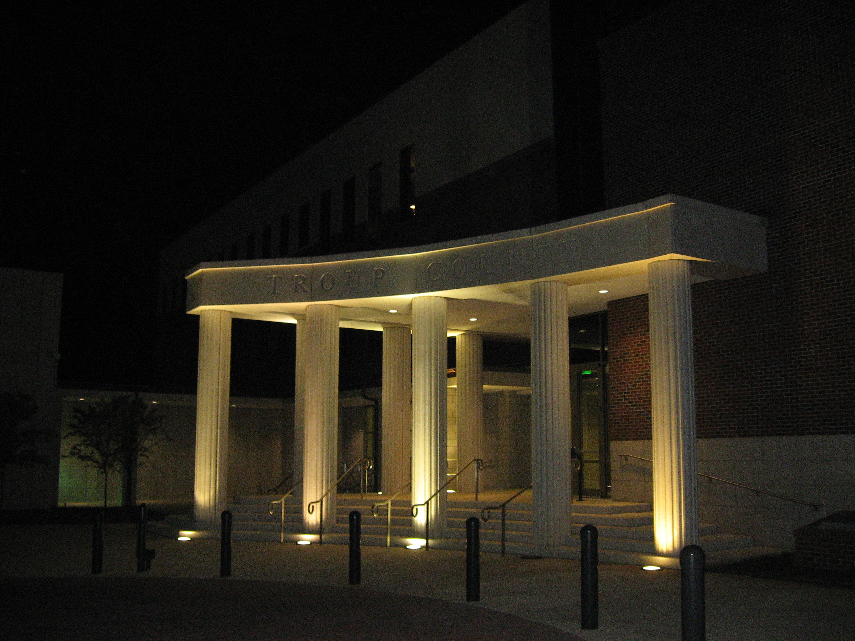 Troup County Courthouse in LaGrange, Georgia